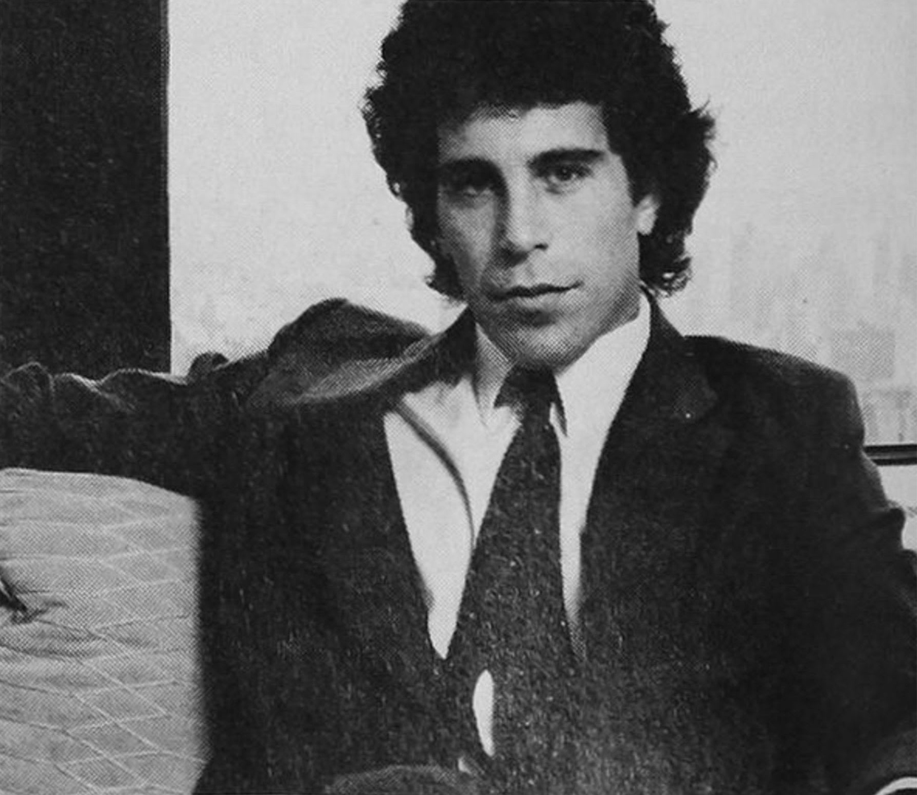 Jeffrey Epstein, 27, in a personals ad published in the July 1980 issue of Cosmo magazine.